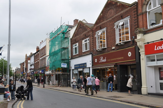 High Street - Burton-on-Trent, near to Stapenhill, Staffordshire, Great Britain. Looking west. As in many towns, the profile of the High Street has changed considerably in the last twenty-five years. However, 'Birds the Confectioners' is, or certainly was, a household name in Burton. During the Second World War and in the late 40's , people formed long queues to buy cakes and bread while the stock lasted!